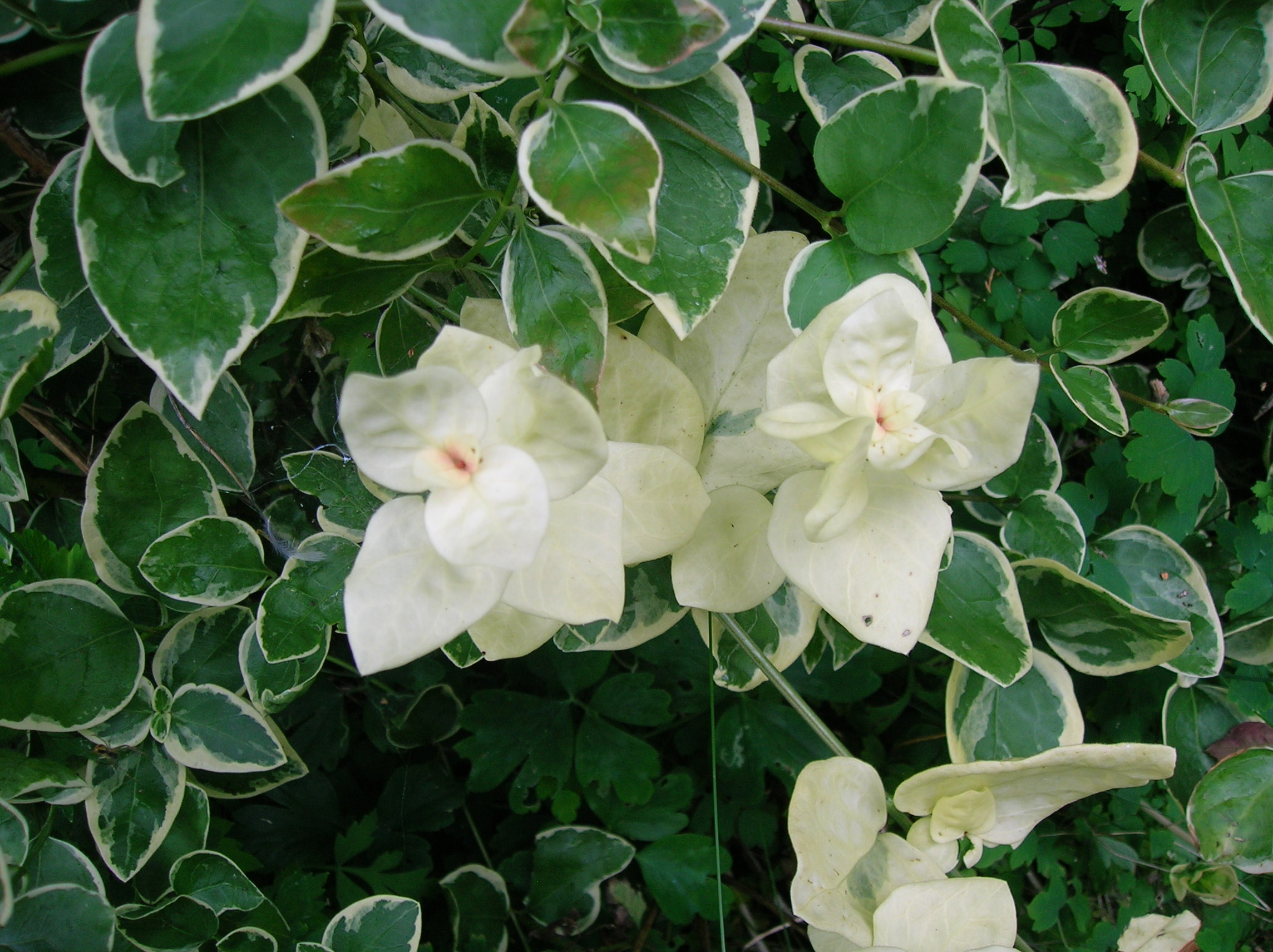 The Greater Periwinkle (Vinca major) showing albinism of the leaves. Chapeltoun, North Ayrshire, Scotland